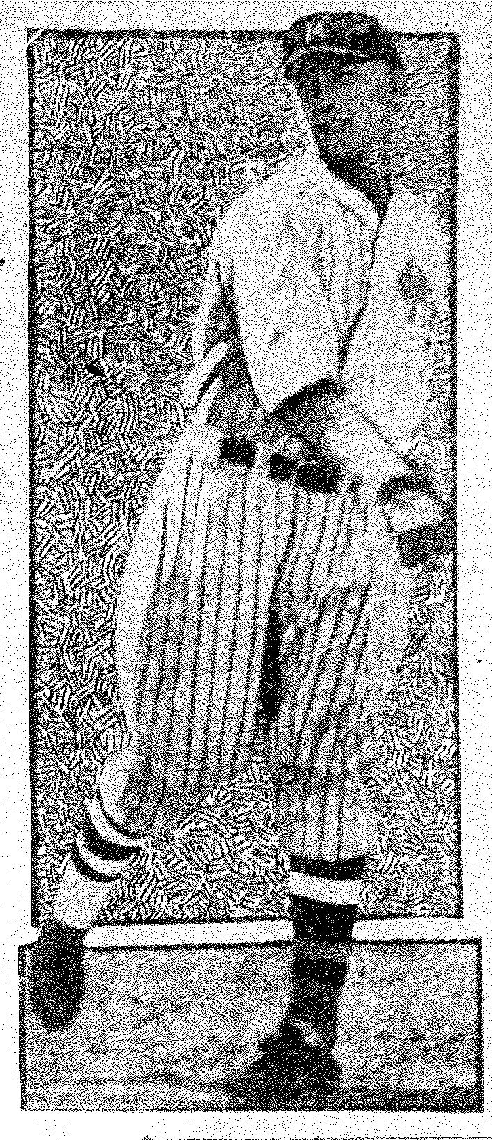 Kenneth Penner, a pitcher for the Houston Buffaloes for 1928 in uniform.